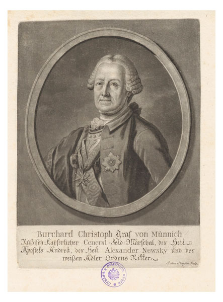 Portrait of General-Feld-Marchall Burchard Christoph Graf von Münnich. After original by Heinrich Buchholtz (1735—1780/1781). Von Münnich is depicted in uniform, with the Orders of St. Andrew (sash, star), St. Alexander Nevsky (the cross), White Eagle (cross).